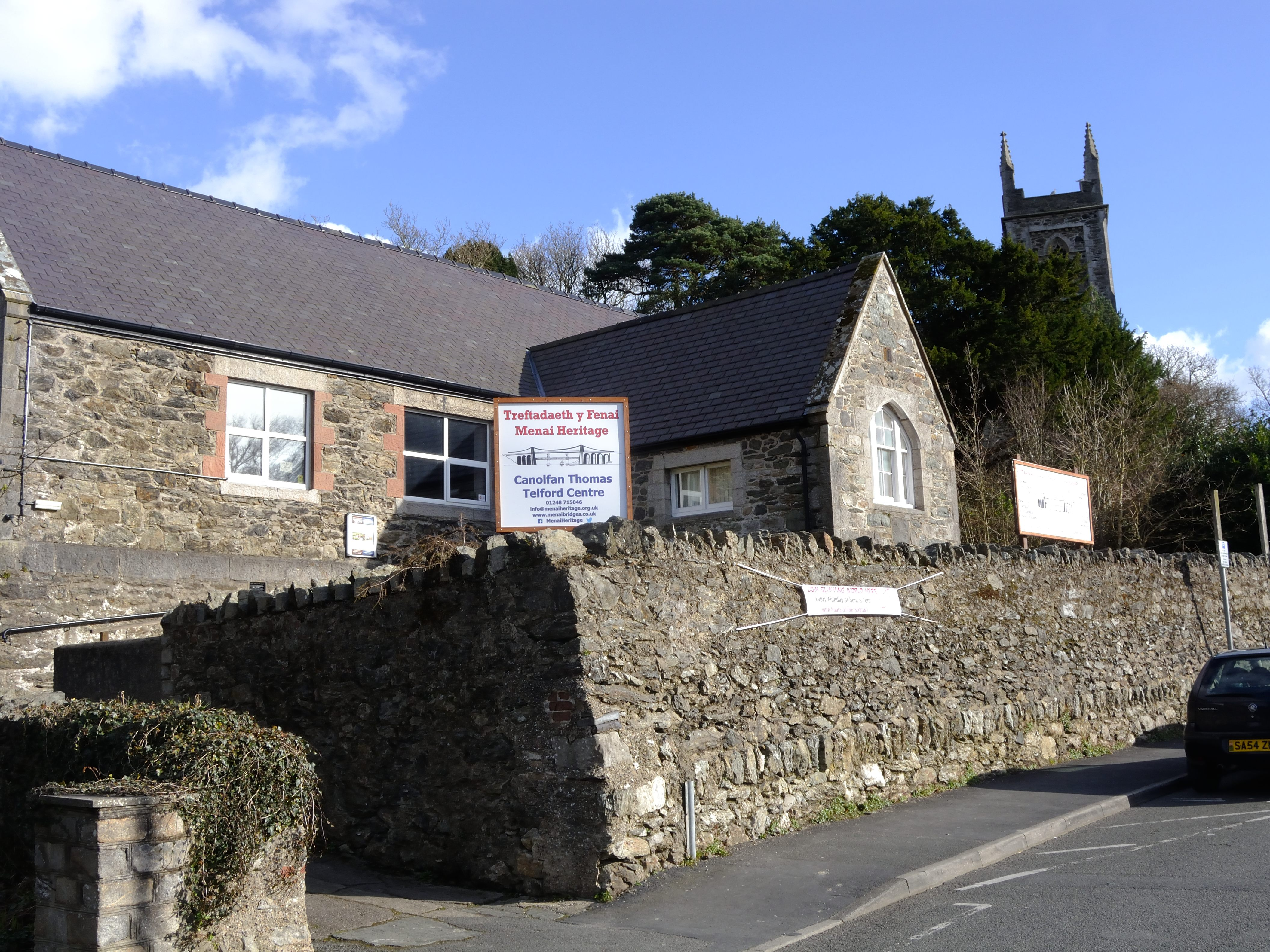 The Canolfan Thomas Telford Centre, home of Menai Heritage, in Menai Bridge, Anglesey, Wales